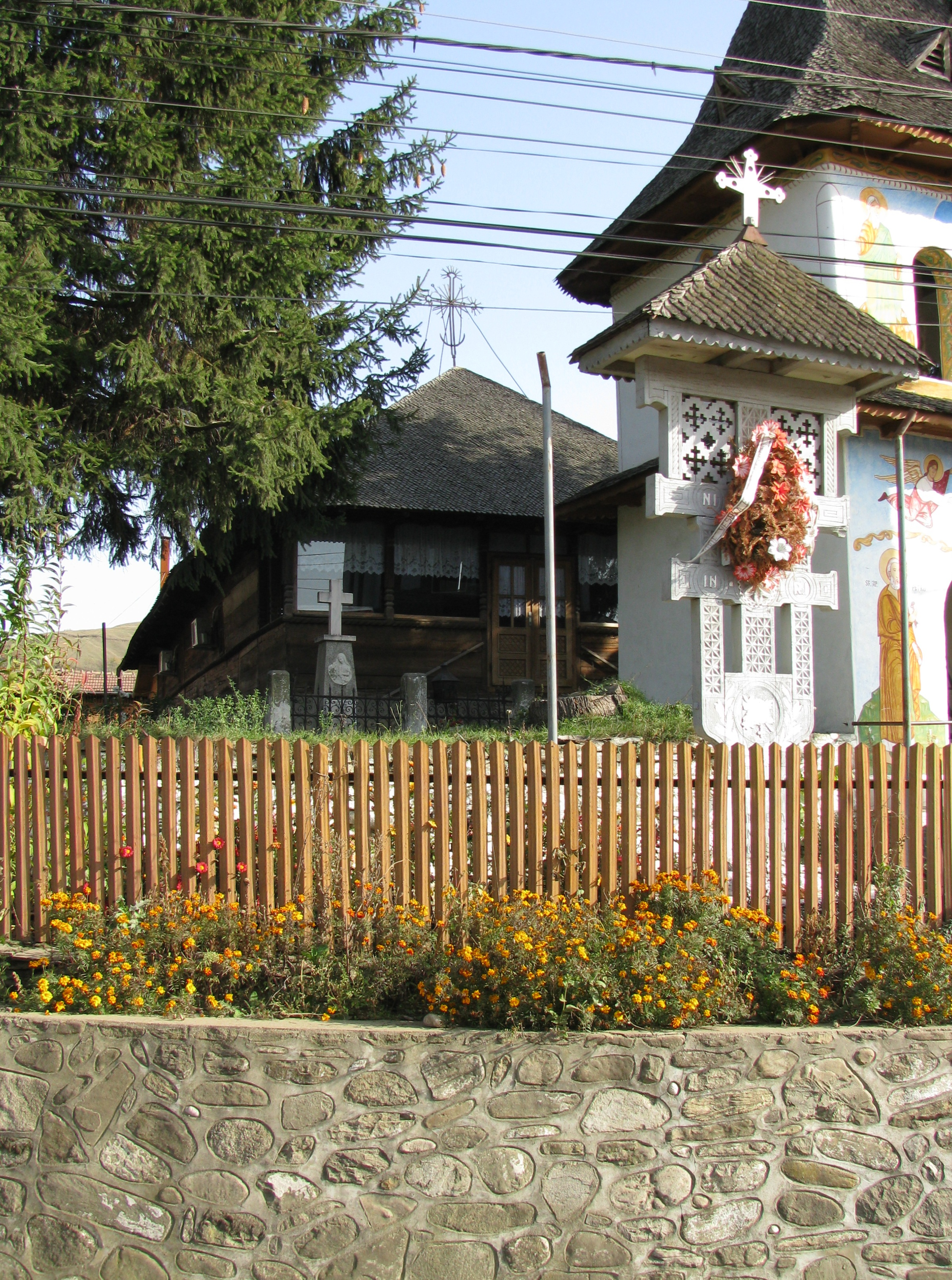 Wooden church "Sf. Nicolae Vechi" from Starchiojd village, Starchiojd commune, Prahova county, Romania